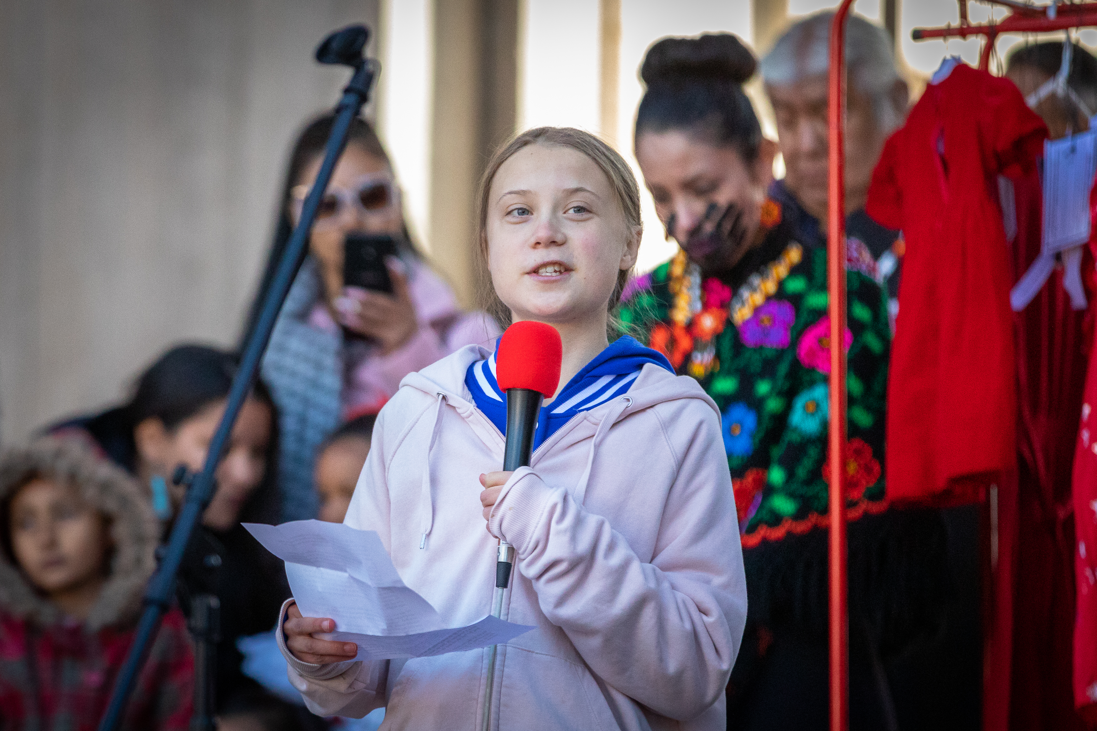 Greta Thunberg addresses climate strikers at Civic Center Park in Denver, on 11 October 2019.